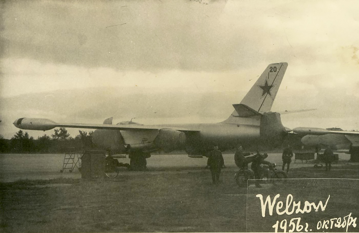 Il-28R, 11th Independent Reconnaissance Aviation Regiment in Welzow, Germany, October 1956g.